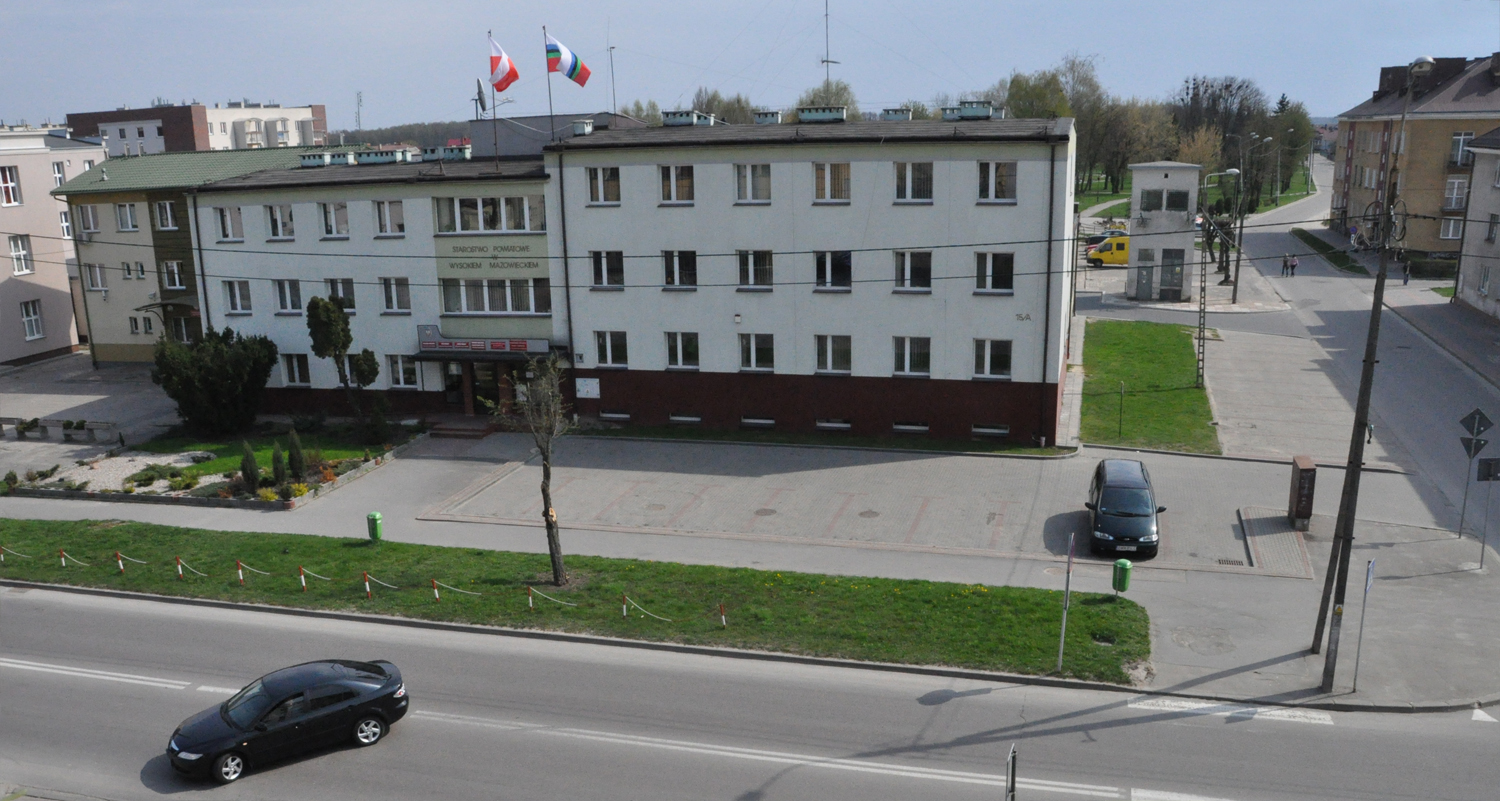 District Starost Office